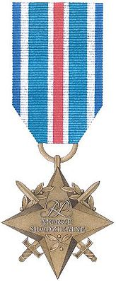 Polish Mediterranean Star obverse